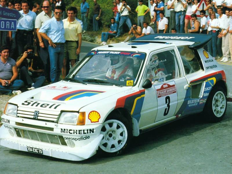 Timo Salonen and co-driver Seppo Harjanne on a Peugeot 205 Turbo 16 E2 at the 1985 Rallye Sanremo.